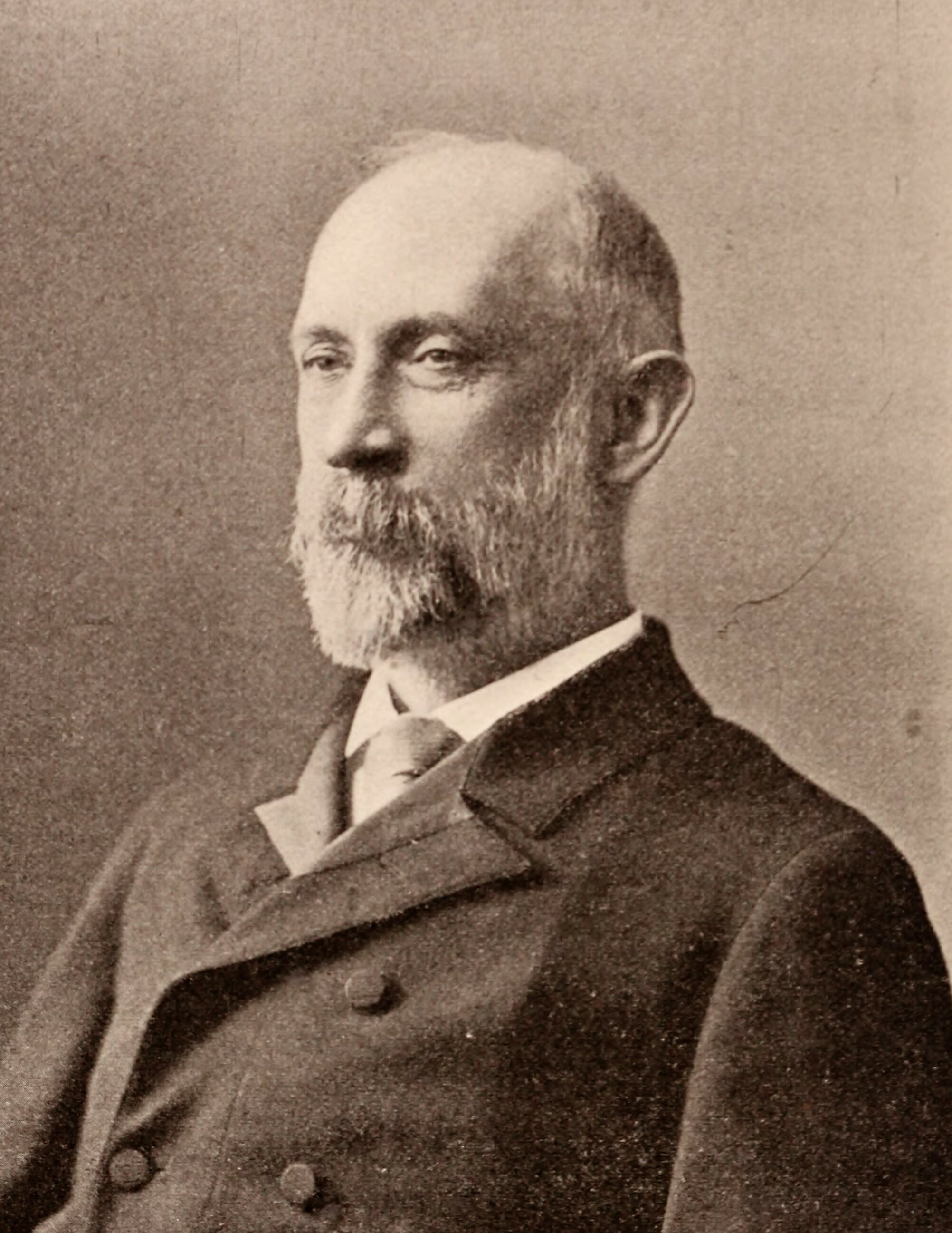 Cropped and enhanced modificiation of The Great north side, or, Borough of the Bronx, New York (1897) (14578686807).jpg